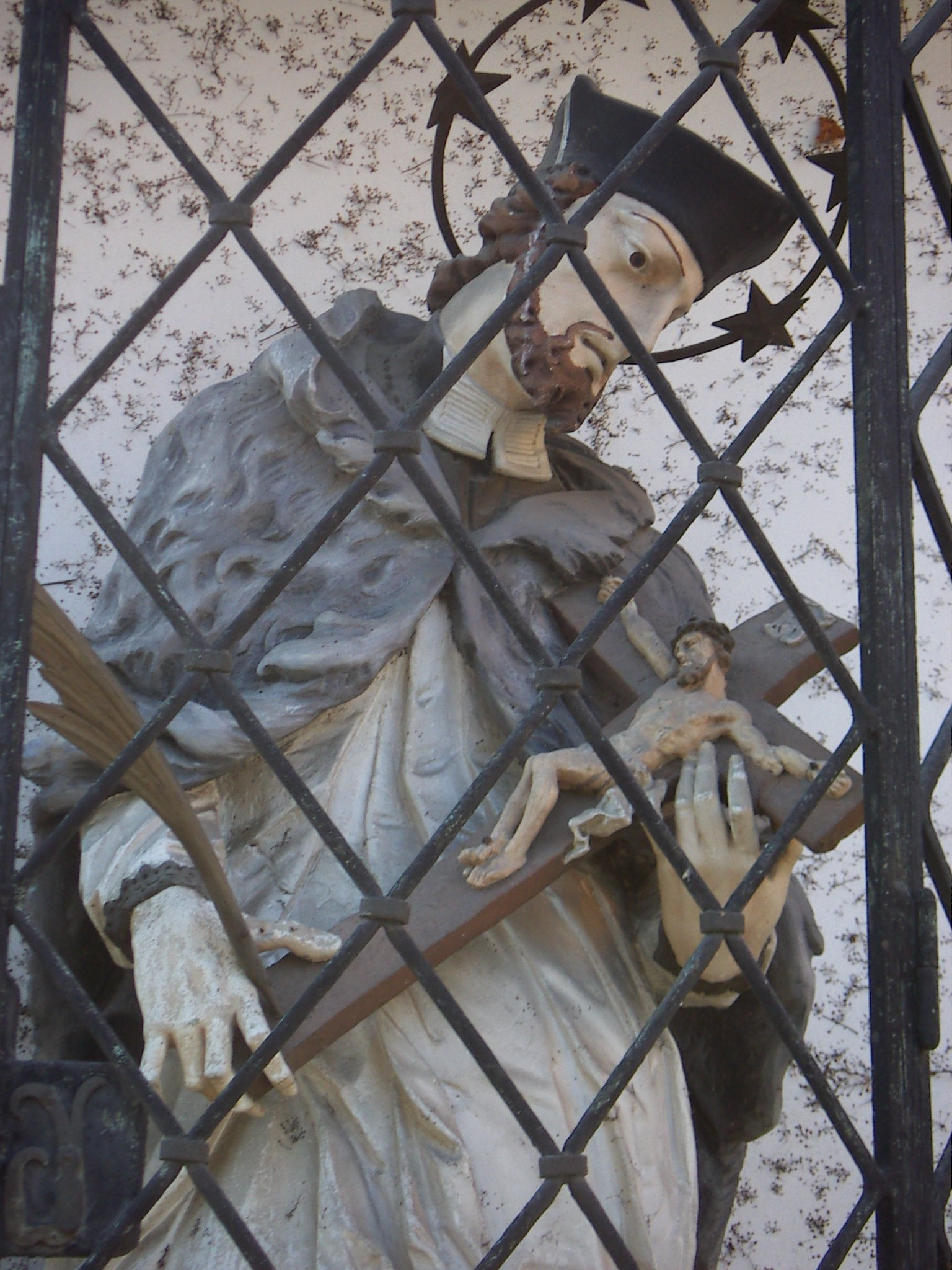 John of Nepomuk - the "Town´s Saint" of Langenstein, Austria